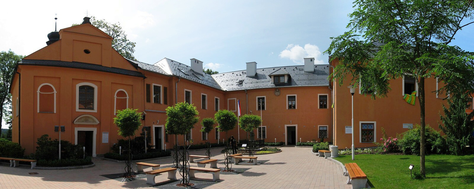 Domov pod hradem Žampach - zámecké nádvoří